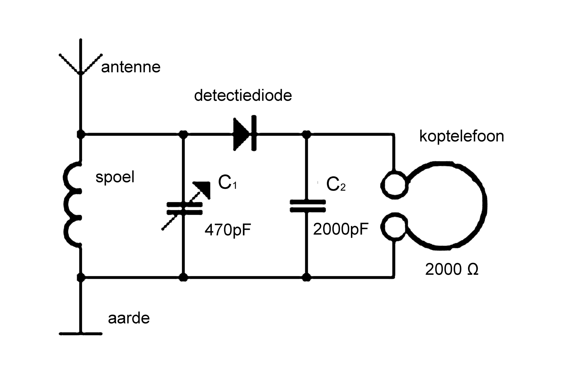 Crystal radio.